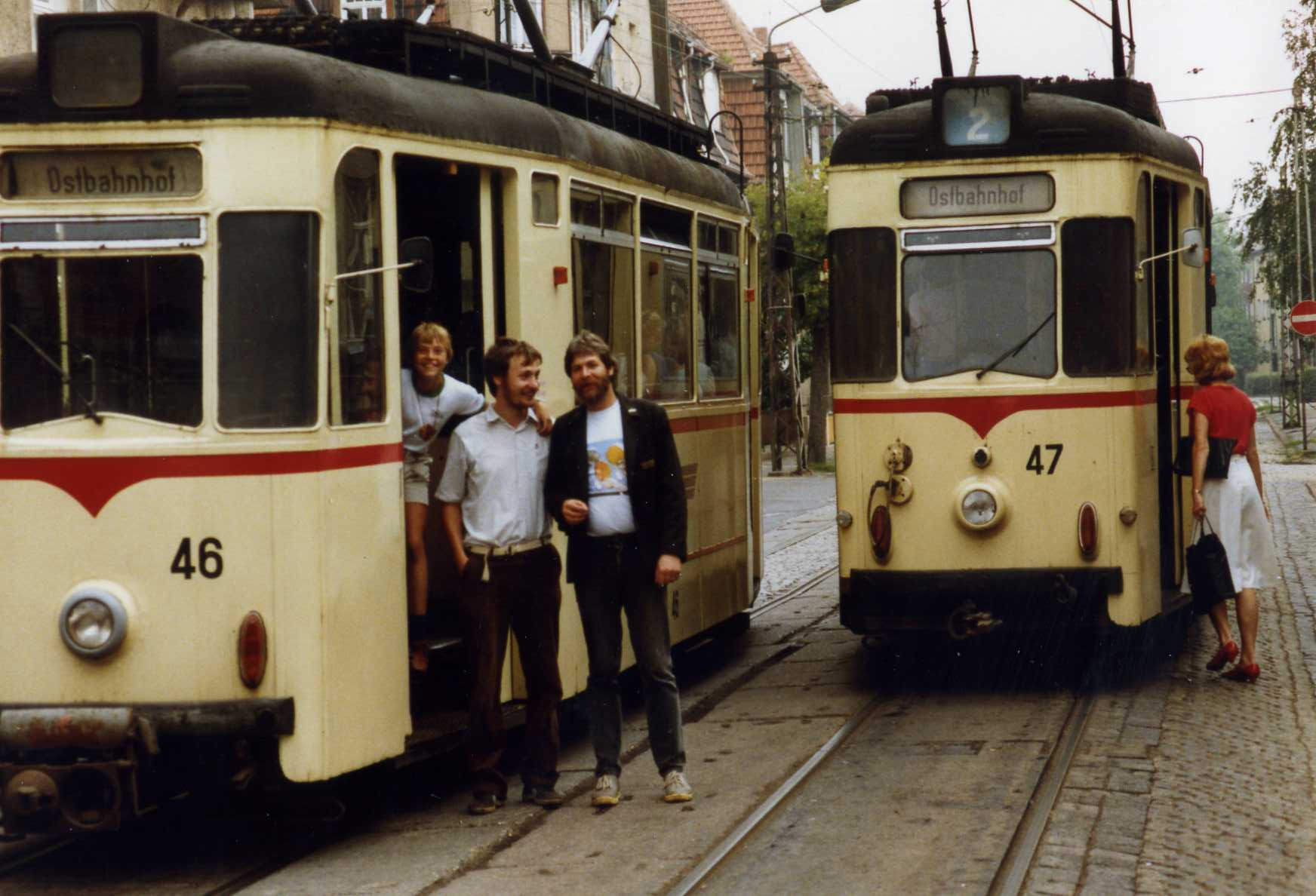 Owing to track repairs at the junction of route 2 with routes 1 and 4, this section of line to the Ostbahnhof was opearting as a shuttle service using two double ended Gotha motor cars, nos 47 and 46. The left hand driver, finding that I was interested in photographing trams, stopped his vehicle at the half way crossing loop and got his fellow driver of the other pendulum tram to pose for a photograph. He also advised me to go the the depot where they would gladly show me the preserved 1929 motor car and trailer of the Waldbahn. On reaching the depot, I duly found „Blakie“ who disappeared to investigate my odd request. After a long wait, he returned with a blank face and the short expression „Nicht möglich“. Well, that was that, so I took a ride on the said Waldbahn to Tabarz not having seen the old timers. No 46 from 1959 went to Erfurt in 1993, and was finally scrapped in 1999 after use at the Transport and Technology museum at Prora on Ruegen. T57 No 47 is preserved as a depot shunter.